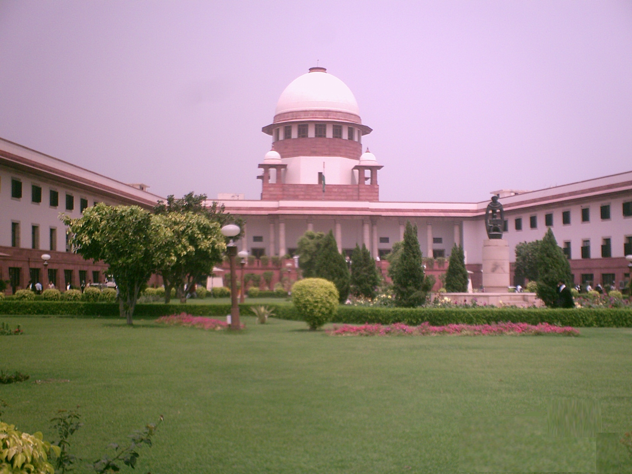 The Supreme Court of India, photographed about 170 metres from the main building outside the perimeter wall.